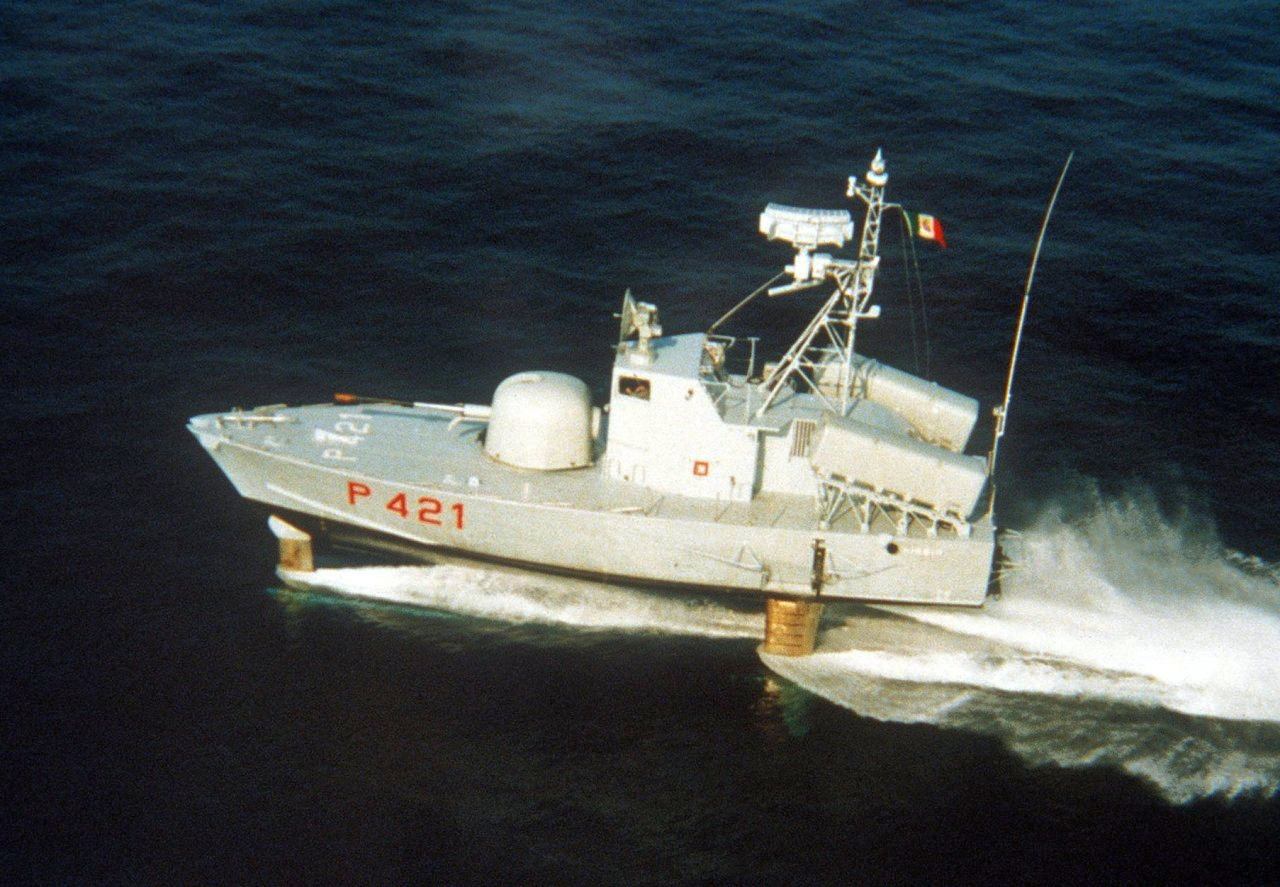 Aerial port beam view of the Italian Sparviero class hydrofoil-missile NIBBIO P-421 underway.